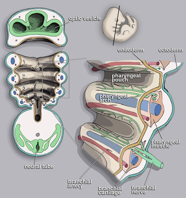 The scheme of the pharyngeal arch. Redrawn from the Gray's anatomy.